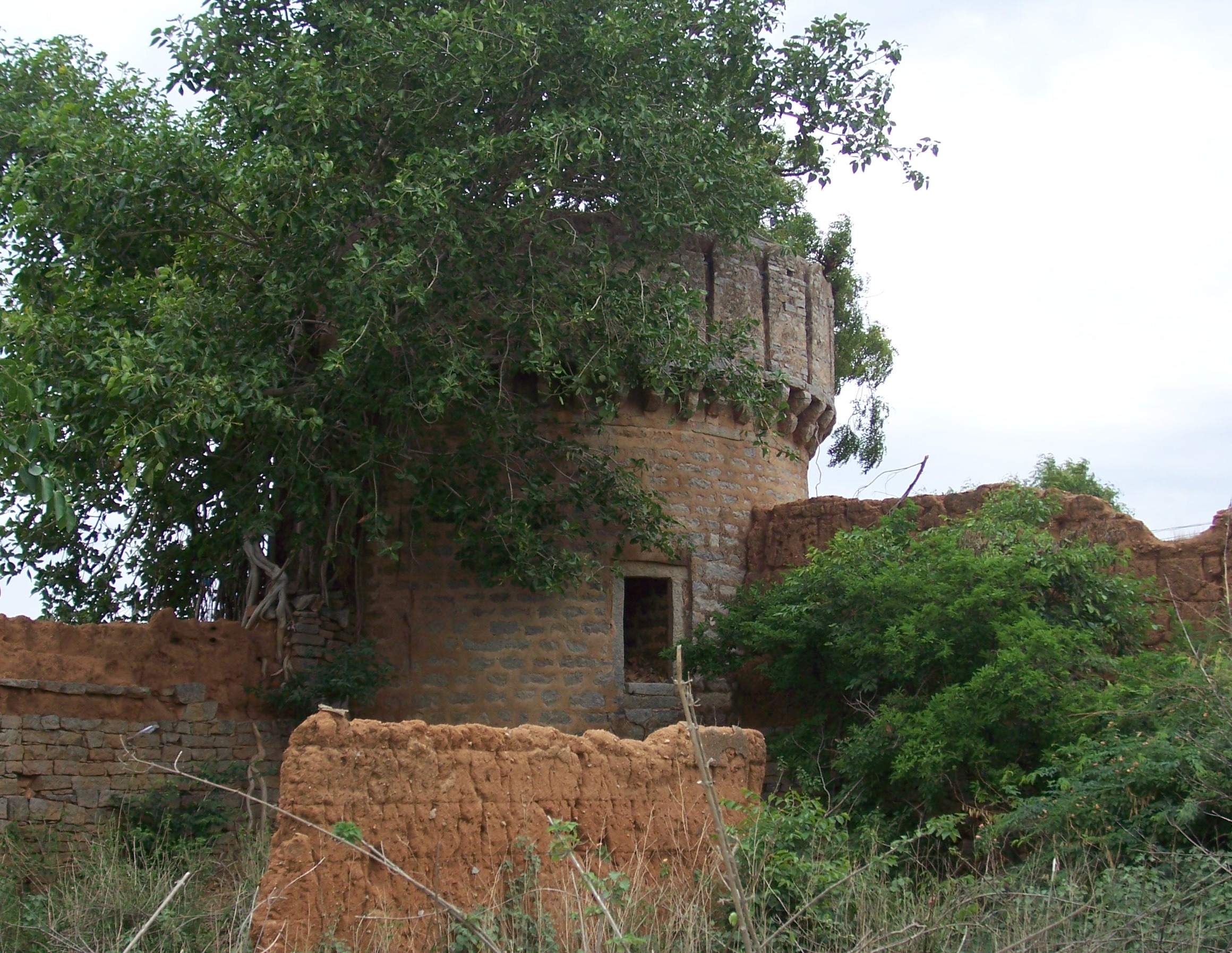 Inside the ruined GhaDi Pocharam village